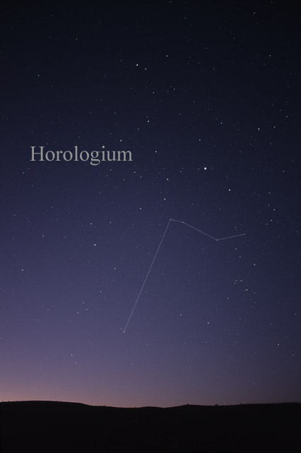 Photo of the constellation Horologium, the Clock